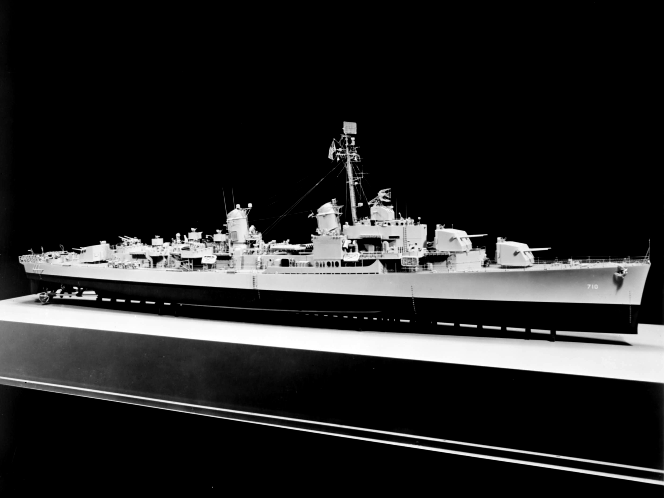 Model of the U.S. Navy destroyer USS Gearing (DD-710). Note that the after set of torpedo tubes has already been replaced by a 40 mm quadruple mount in this model.